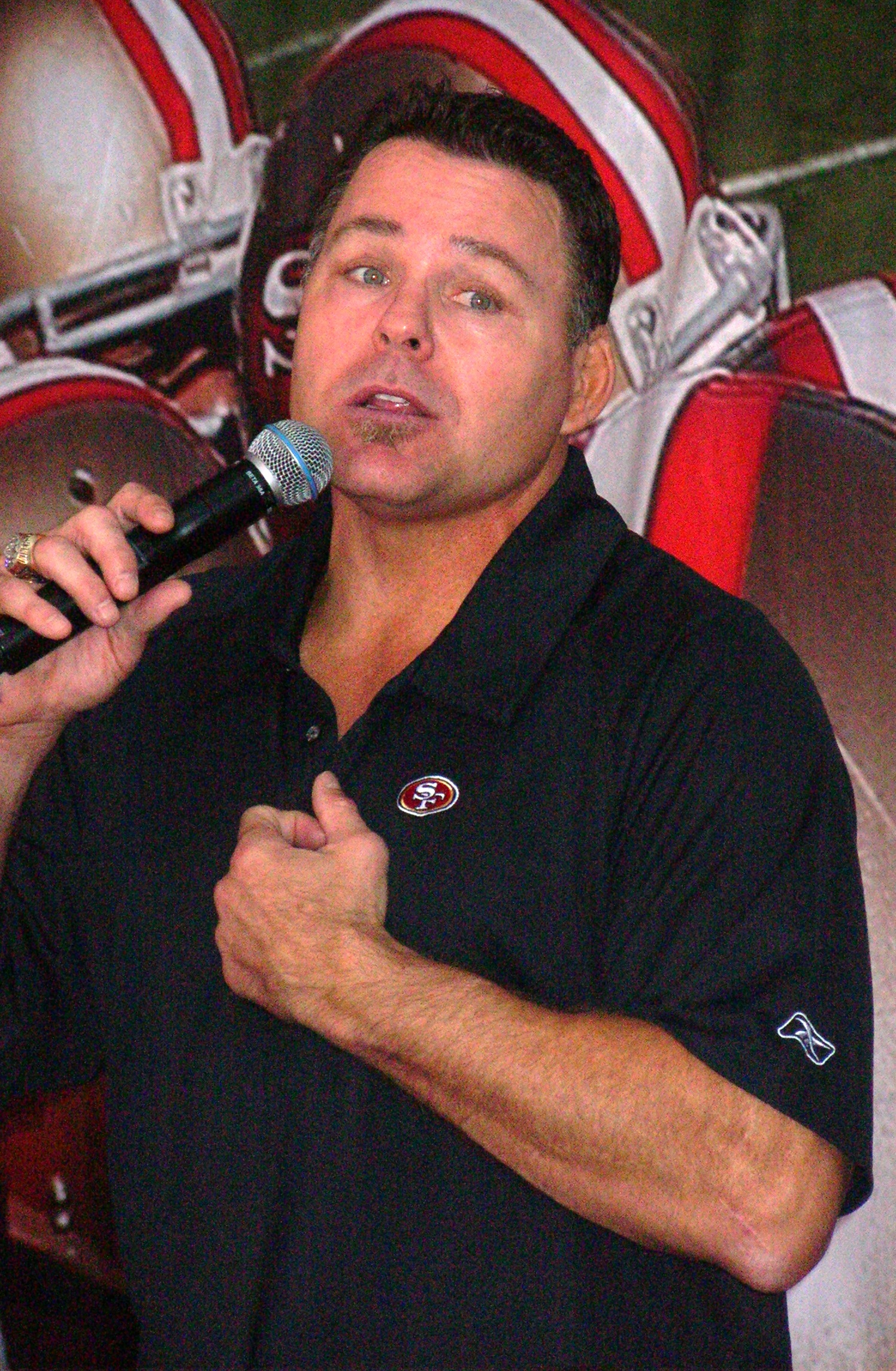 Former San Diego Chargers and San Francisco 49ers linebacker Gary Plummer at the San Francisco 49ers Family Day 2009 at Candlestick Park.